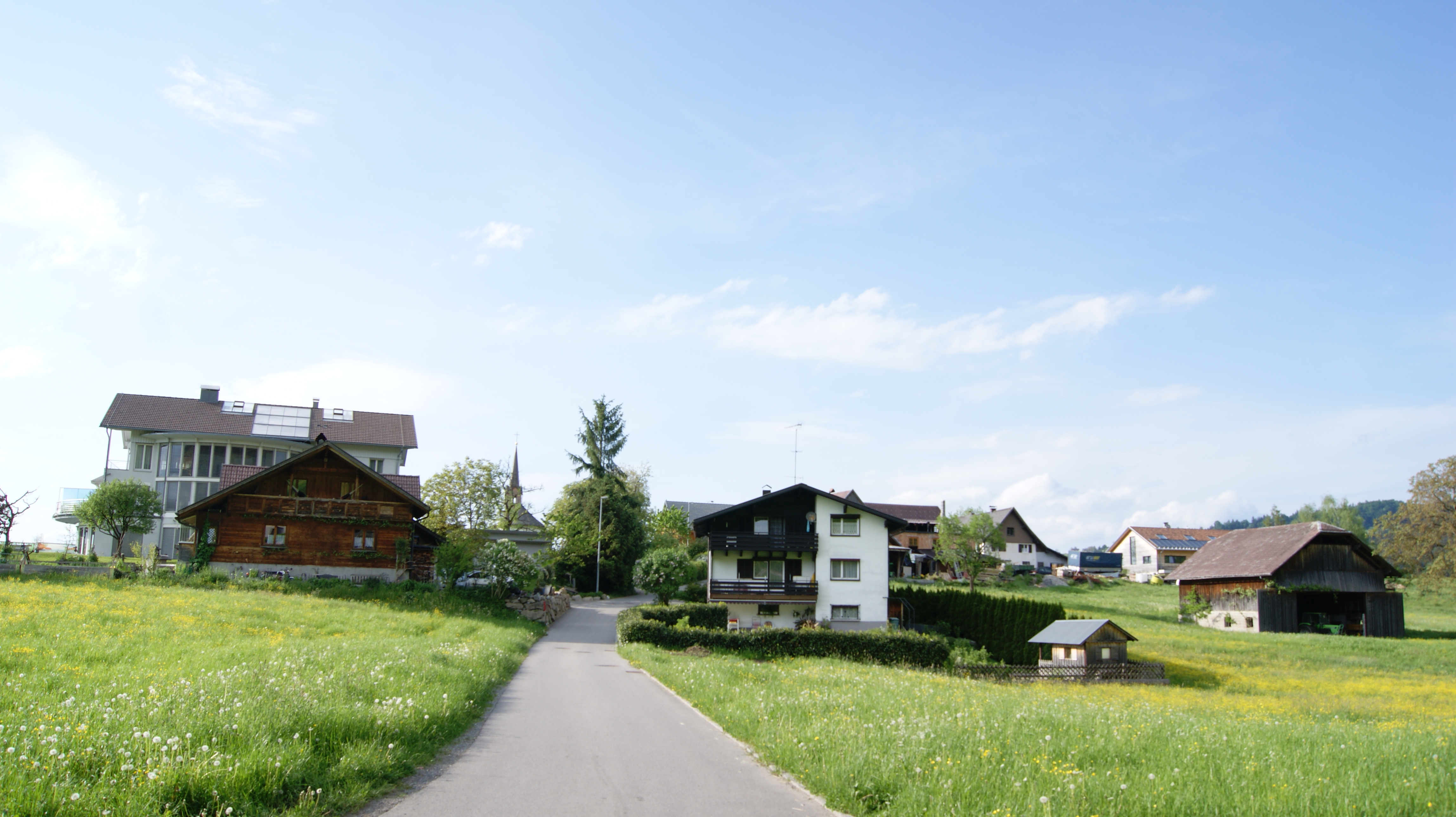 Part of the hamlet Jennen in Dornbirn, Vorarlberg, Austria.